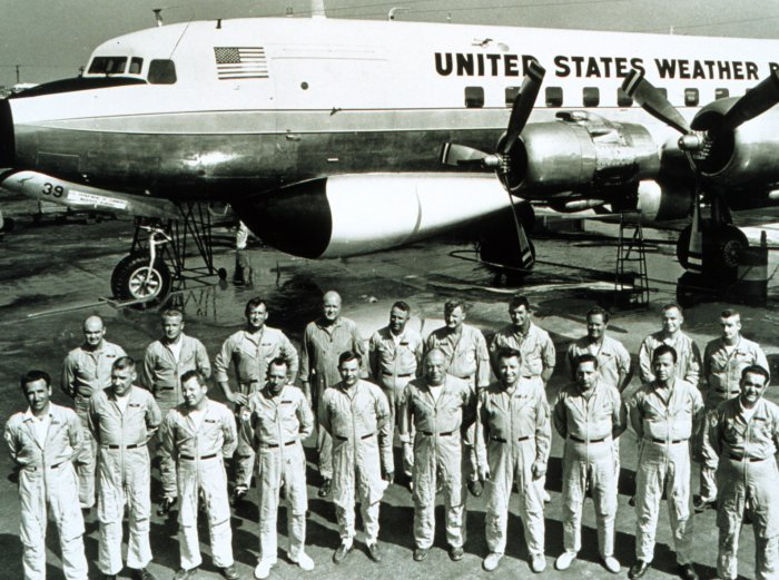 The personnel of W:Project Stormfury of the U.S. National Oceanic and Atmospheric Administration in front of one of their Douglas DC-6 in 1966.